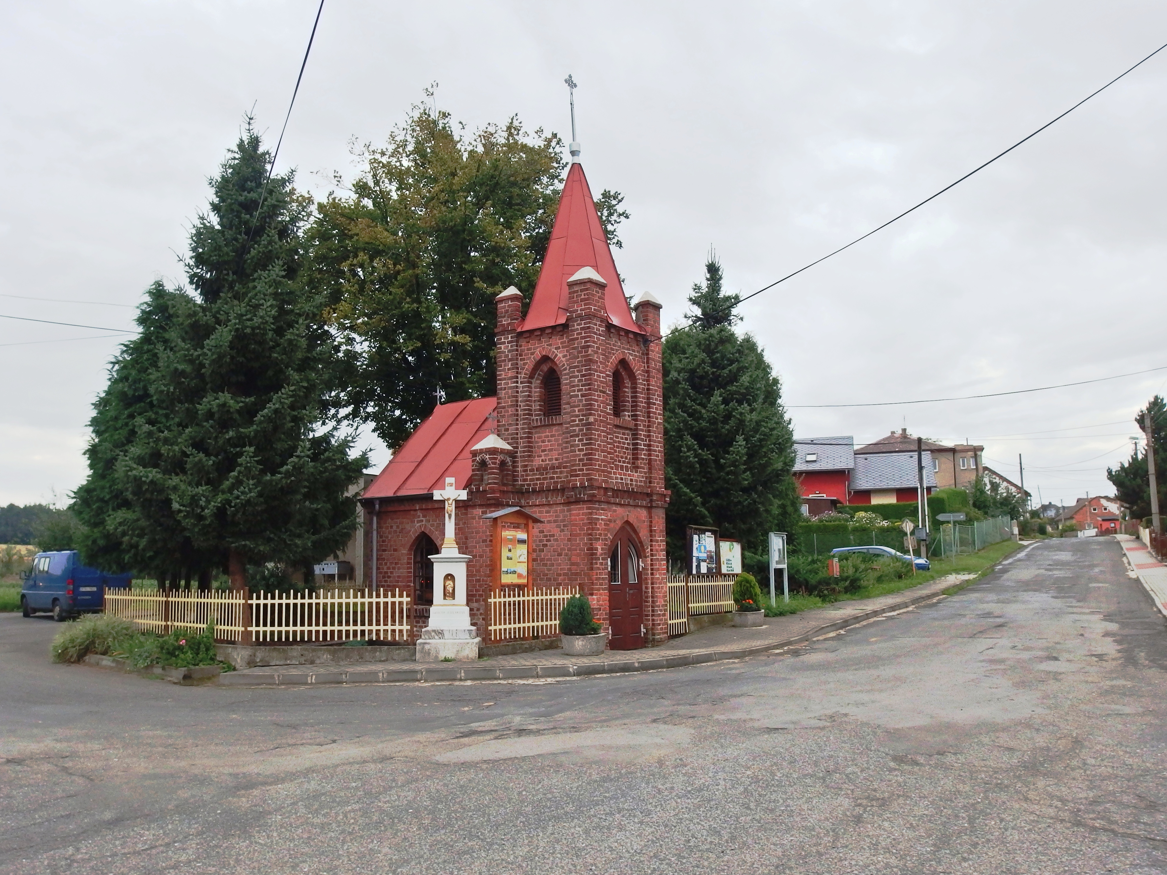 Služovice, Opava District, Czech Republic, part Vrbka.